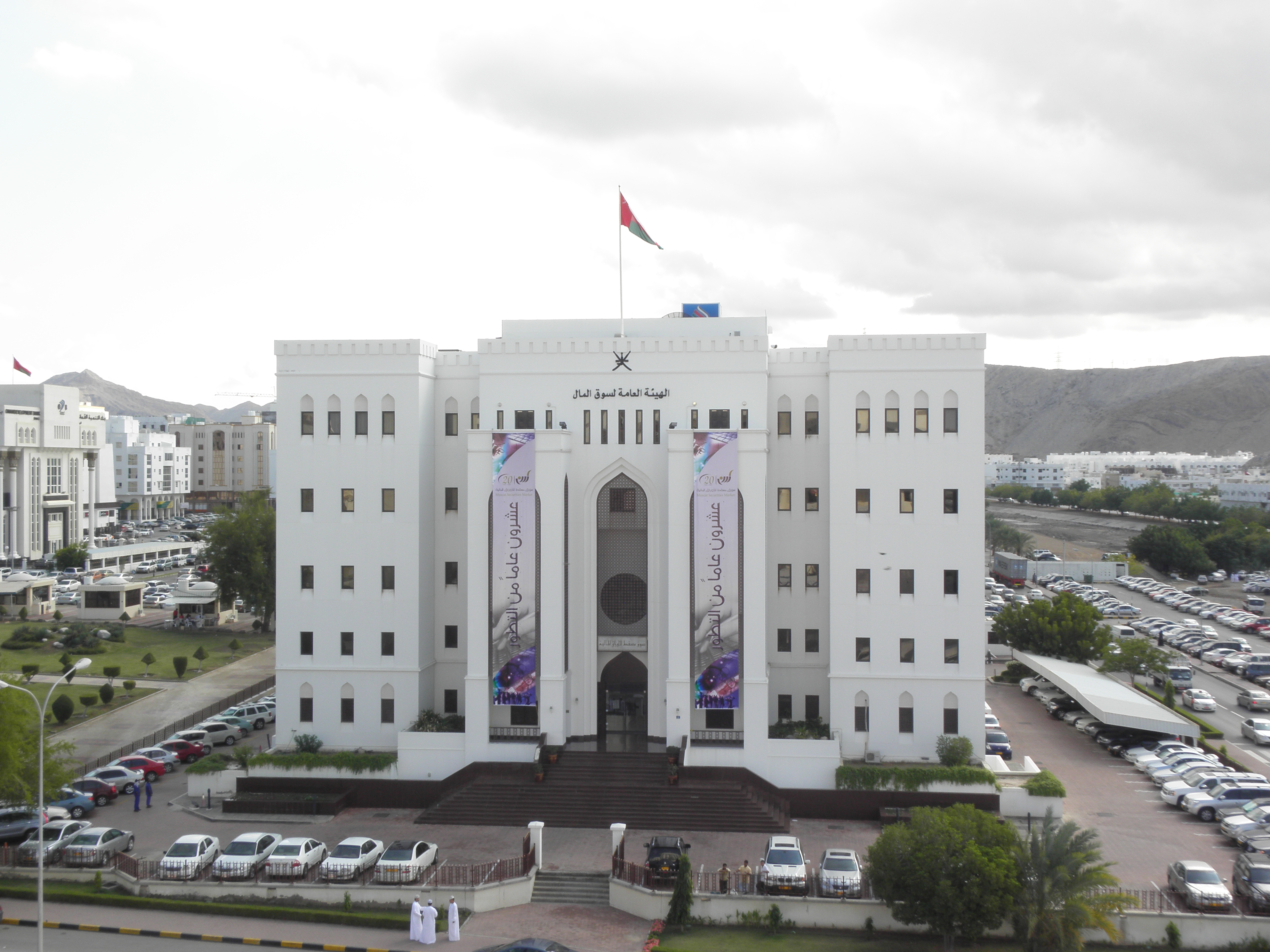 Depicted place: Muscat Securities Market